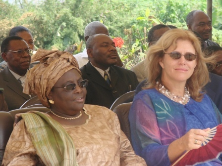 Cameroonian Minister Haman Adama (left) and Mrs. Marquardt (right), wife of the U.S. Ambassador to Cameroon.